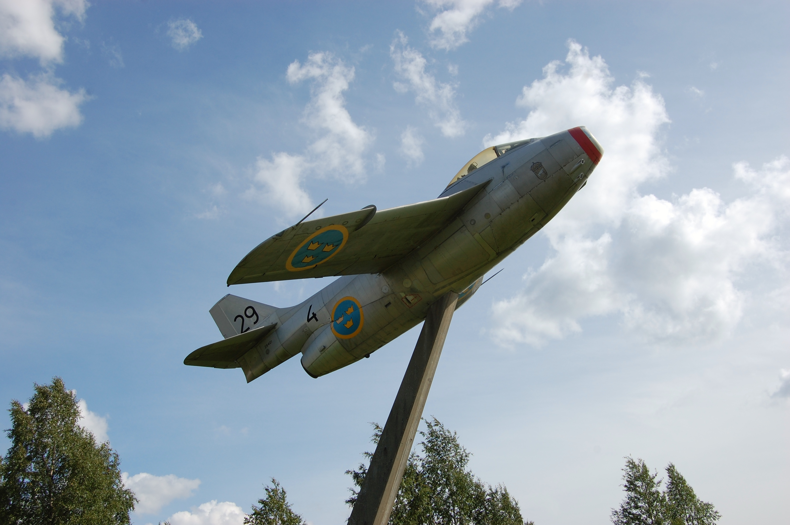 SAAB J29 Tunnan 29401 at former F4, Frösön, Östersund, Sweden.